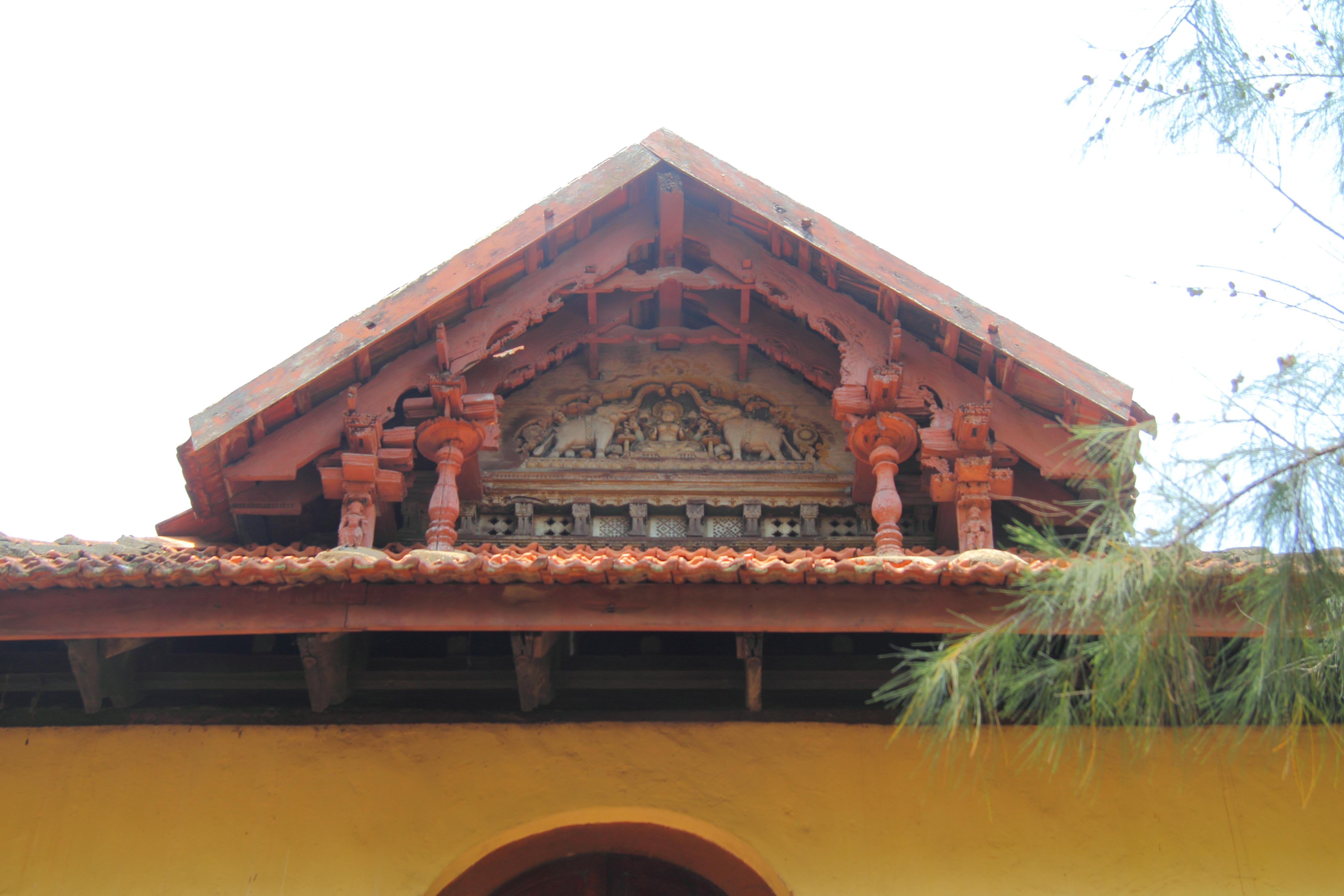 Fort Kochi, India: Mattancherry Palace